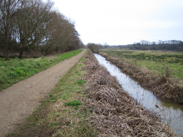 National Cycle Network Route 23. The route here follows the track bed of the long dismantled Sandown to Newport railway. Viewed looking eastwards from Alverstone, the flood plain of the River Yar is to the right.